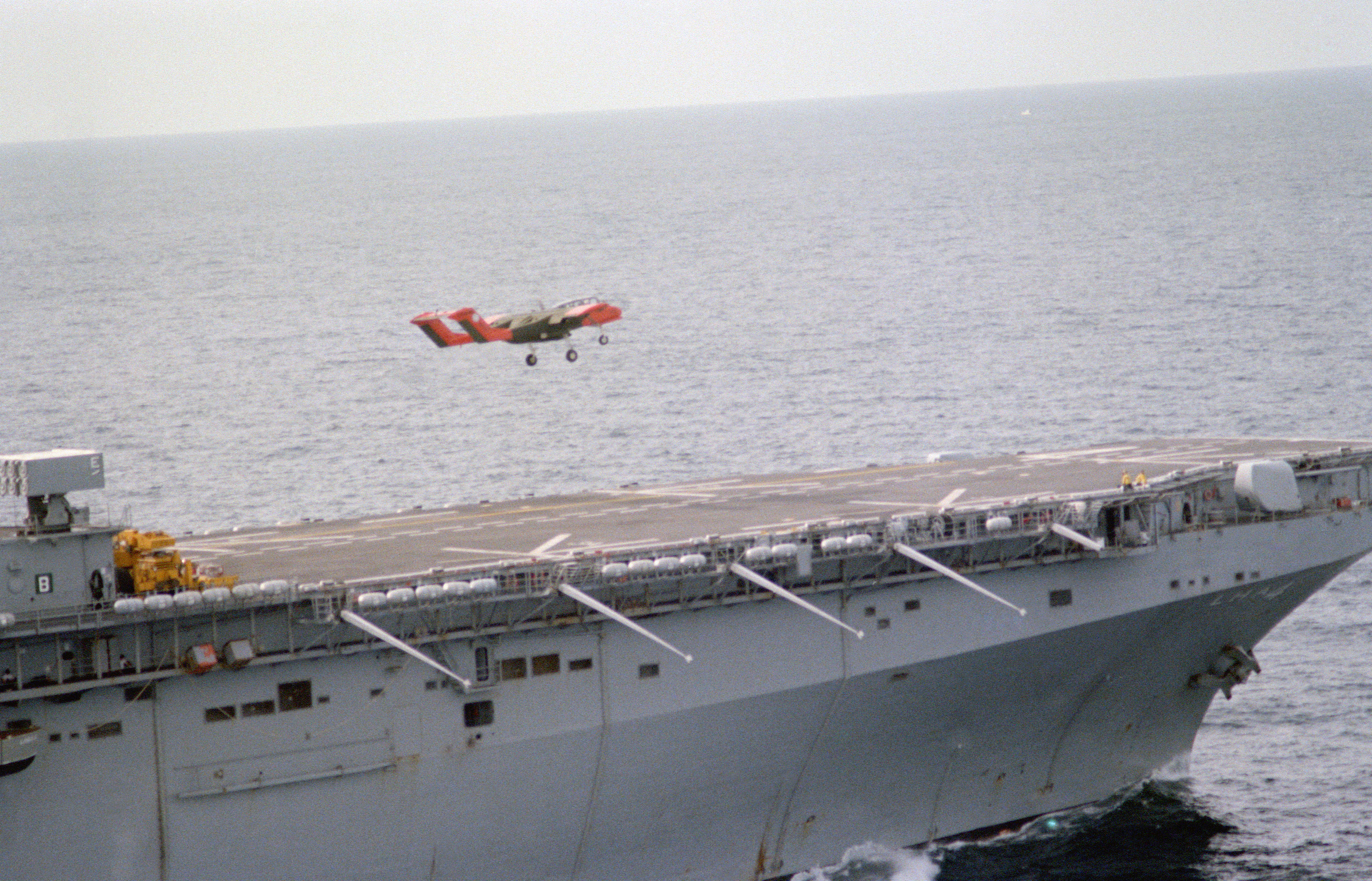 A U.S. Marine Corps North American Rockwell OV-10A Bronco takes off from the flight deck of the U.S. Navy amphibious assault ship USS Nassau (LHA-4), in 1983.